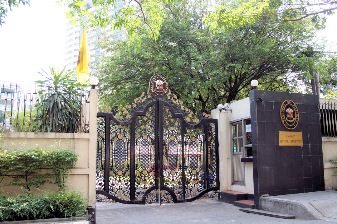 Ornate gates of the Philippines Embassy in Bangkok, Thailand.